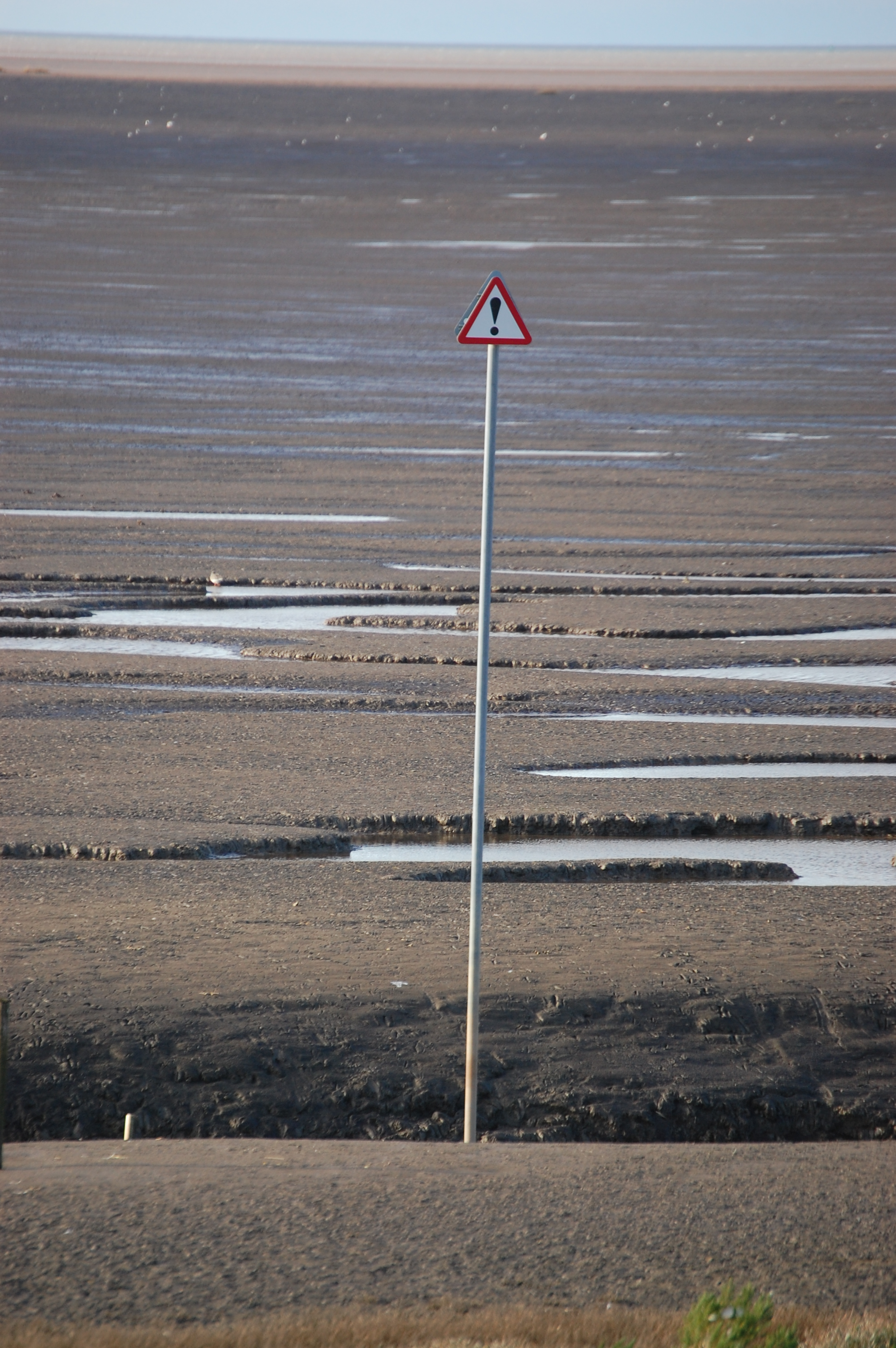 An extremely tall warning sign on the sands at at Snettisham RSPB reserve, Norfolk, England.